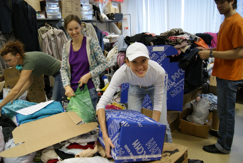 Young and adult volunteers help to wrap a parcels at the charitable foundation «Sozidanie»